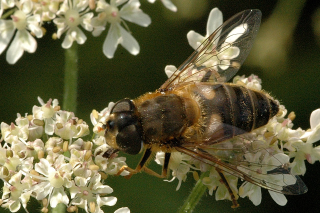 Picture taken in Commanster, Belgian High Ardennes . Species: female Eristalis pertinax